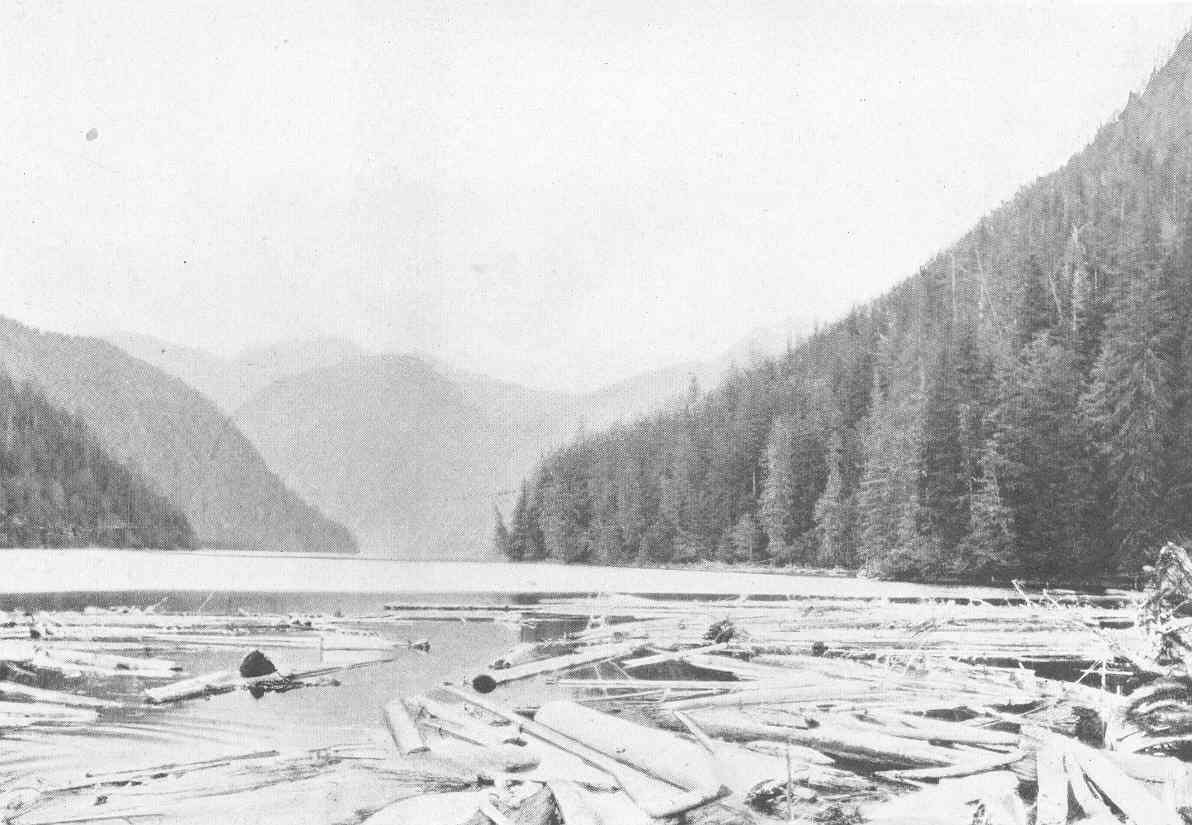 Smith Lake, Boca de Quadra Subject: Smith Lake (Boca de Quadra, Alaska), Lakes--Alaska Geographic Subject: United States--Alaska--Smith Lake Tag: Limnology